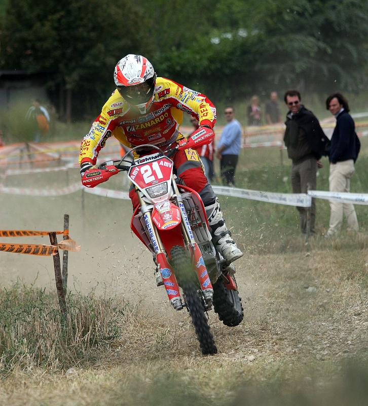 Fabio Mossini riding his Honda E2 bike at the 2008 World Enduro Championship Grand Prix of Italy in Piediluco.